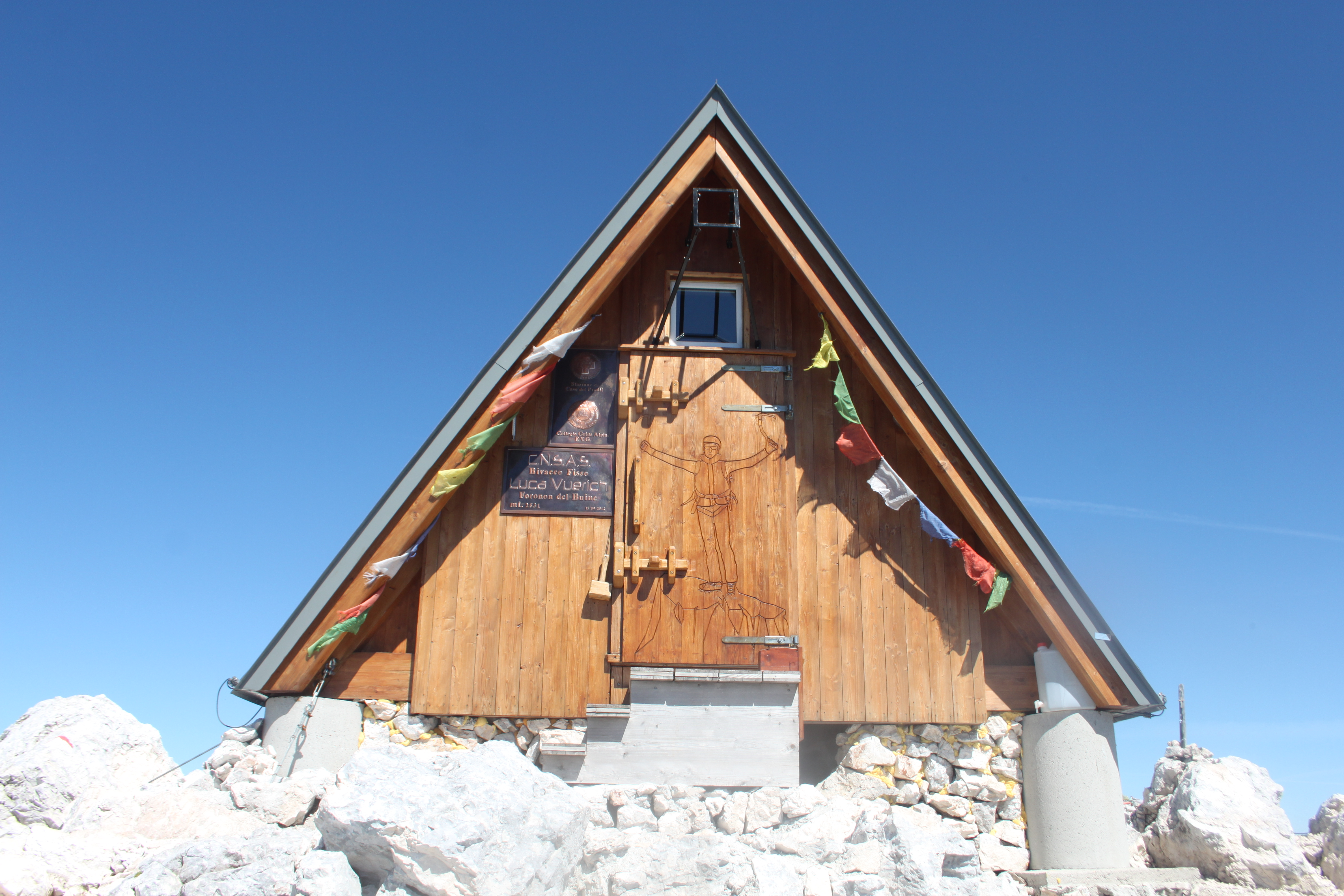 Bivouac Luca Vuerich on the top of Foronon del Buinz / Špik nad Nosom (2,531 m), Julian Alps, ItalySlovenščina: Bivak Luca Vuerich na vrhu Špika nad Nosom, Julijske Alpe